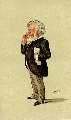 Caricature of Birmingham Bordesley MP Jesse Collings. Caption read "3 acres and a cow".